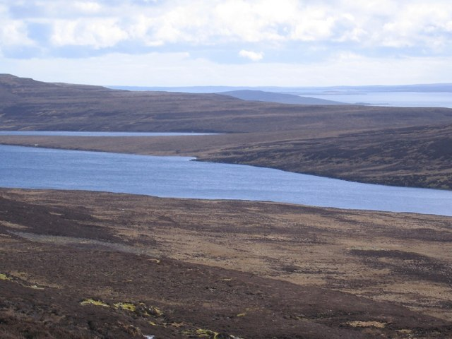 The Muckle Water on Rousay's southside. Overlooking from Novan the Muckle (Big) Water with the Peerie (little) Water also in view, situated in the characteristic heather moorland of the higher parts of Rousay.